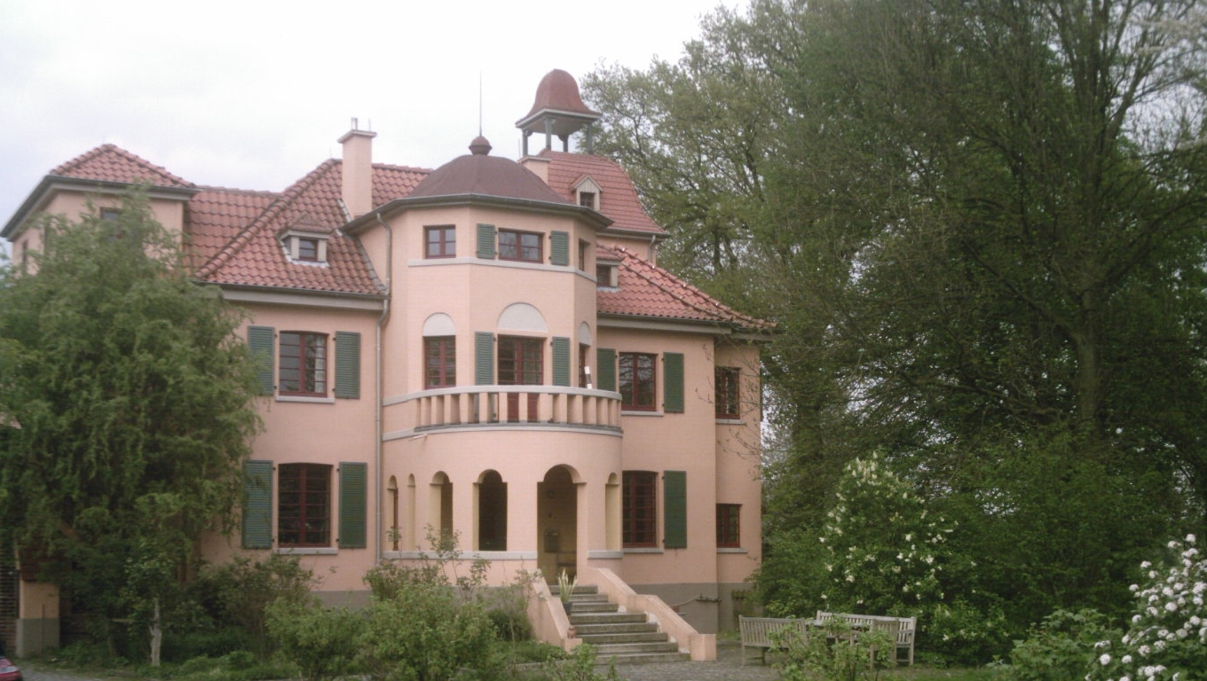 Small castle "Haus Donkholt" in Donk, Viersen, Germany